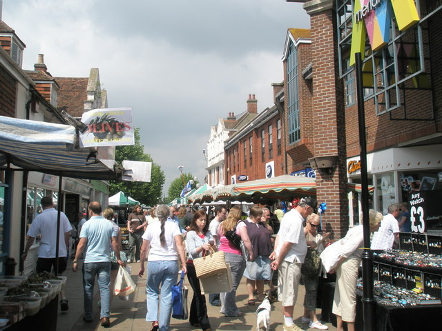 A crowded Havant Market